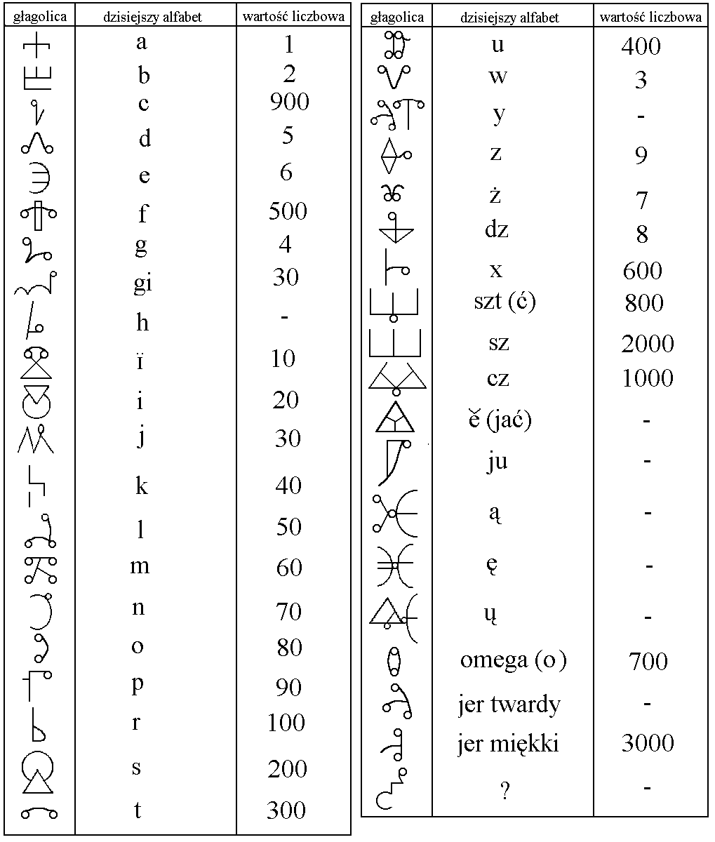 Table of Bulgarian Glagolitic Alphabet with Polish (or other Slavic) counterpart.